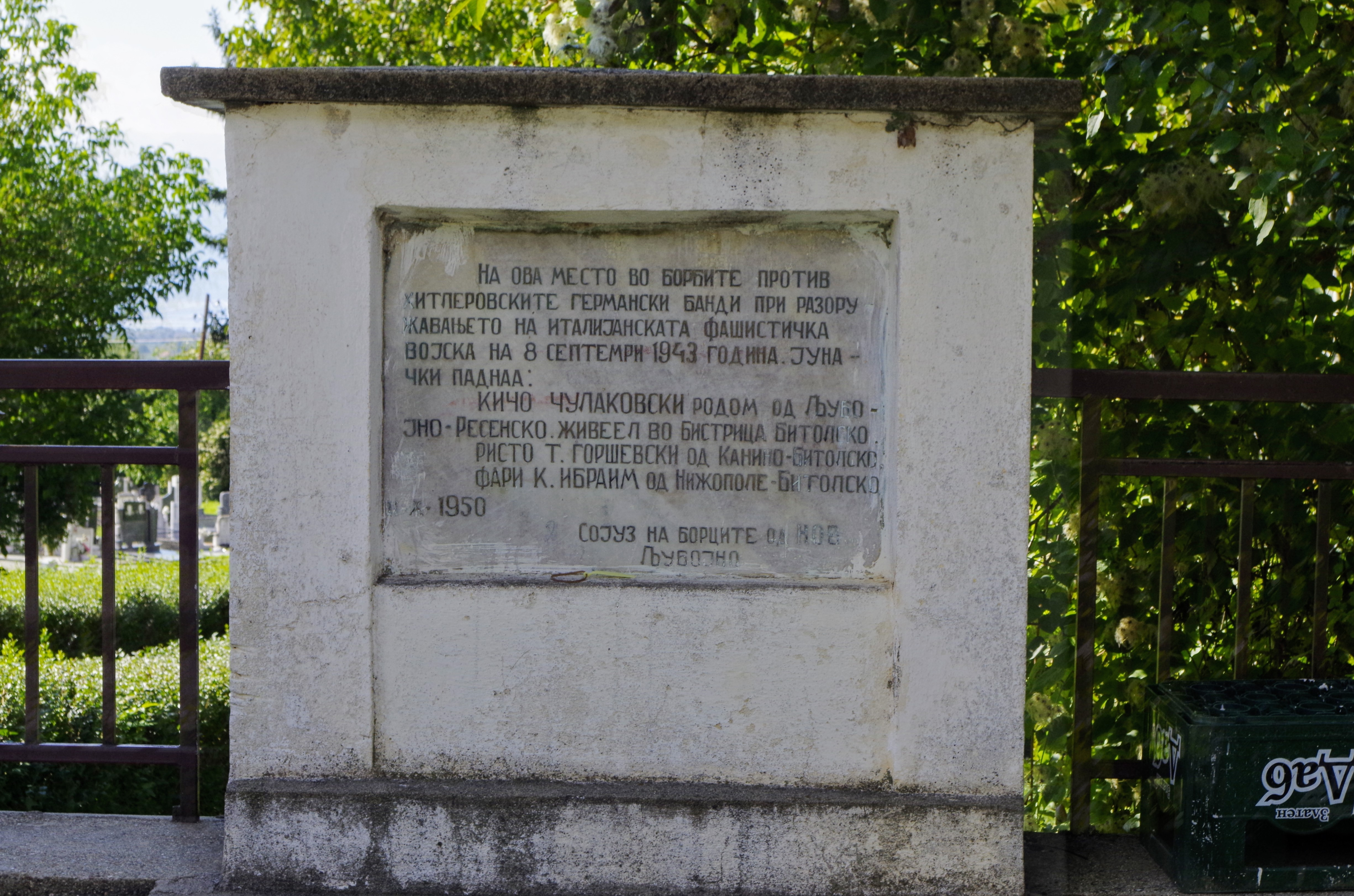 View of the monument in the village Ljubojno